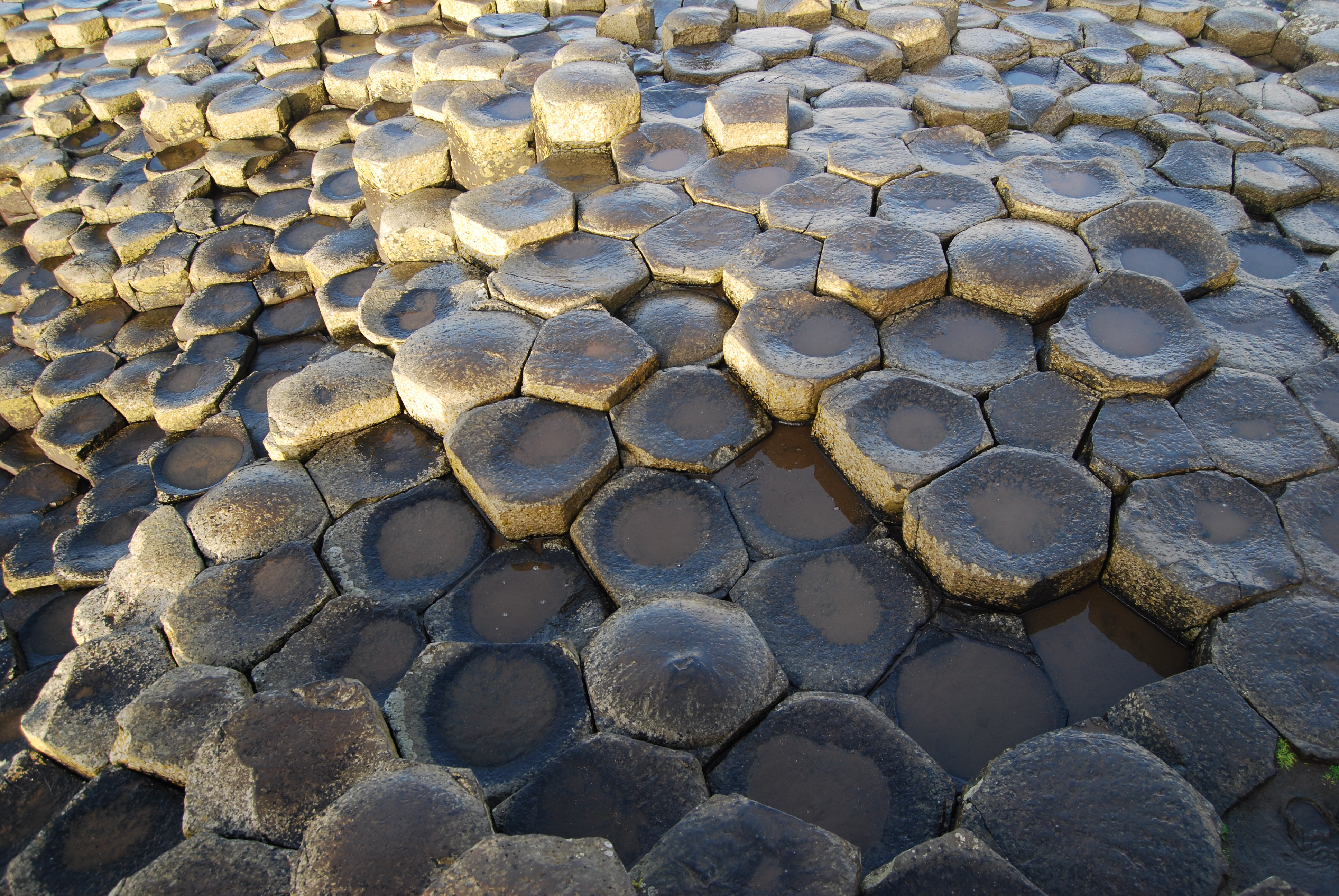 Giant's Causeway, Northern Ireland. Hexagonal basalts.